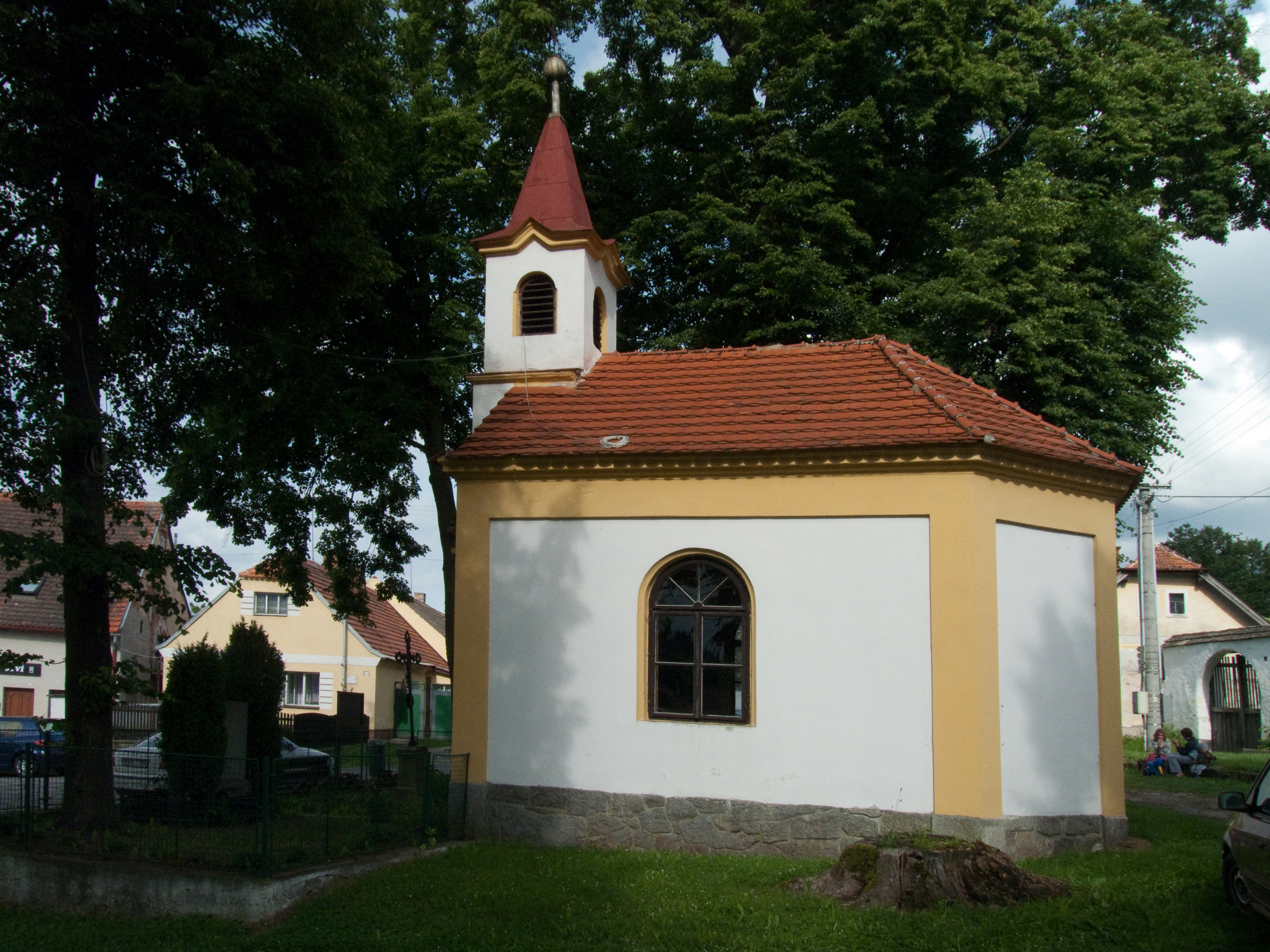 St. Anne Chapel in the village of Vrbno, Strakonice district, Czech Republic from the west